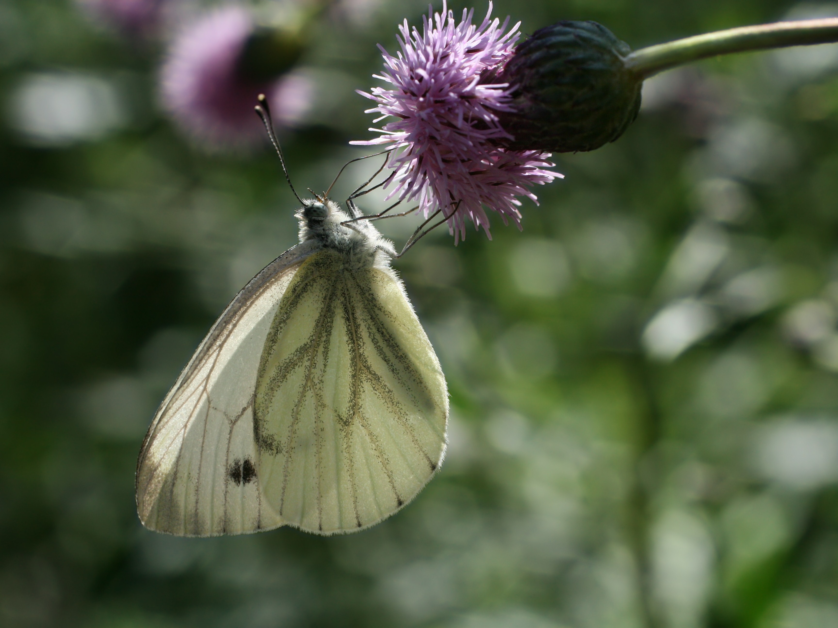 Pieris napi seen in Kronobersgsparken, Stockholm, Sweden.